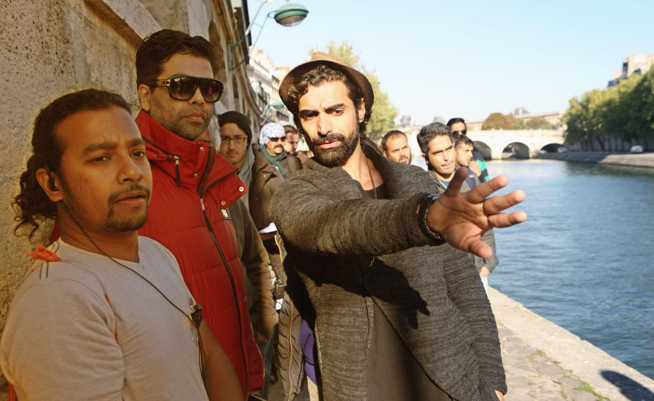 Tushar Kalia with Karan Johar on the sets of Ae Dil Hai Mushkil